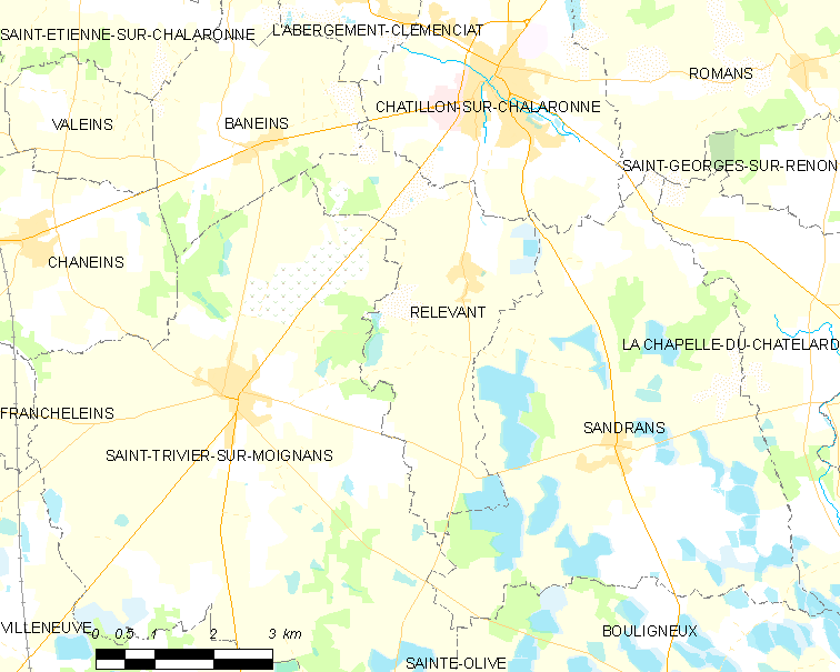 Map of French commune: Relevant Map commune FR insee code 01319.png